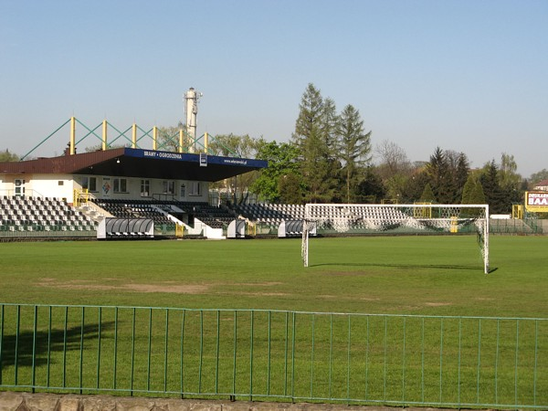 Soccer stadium of Sandecja Nowy Sącz, PL